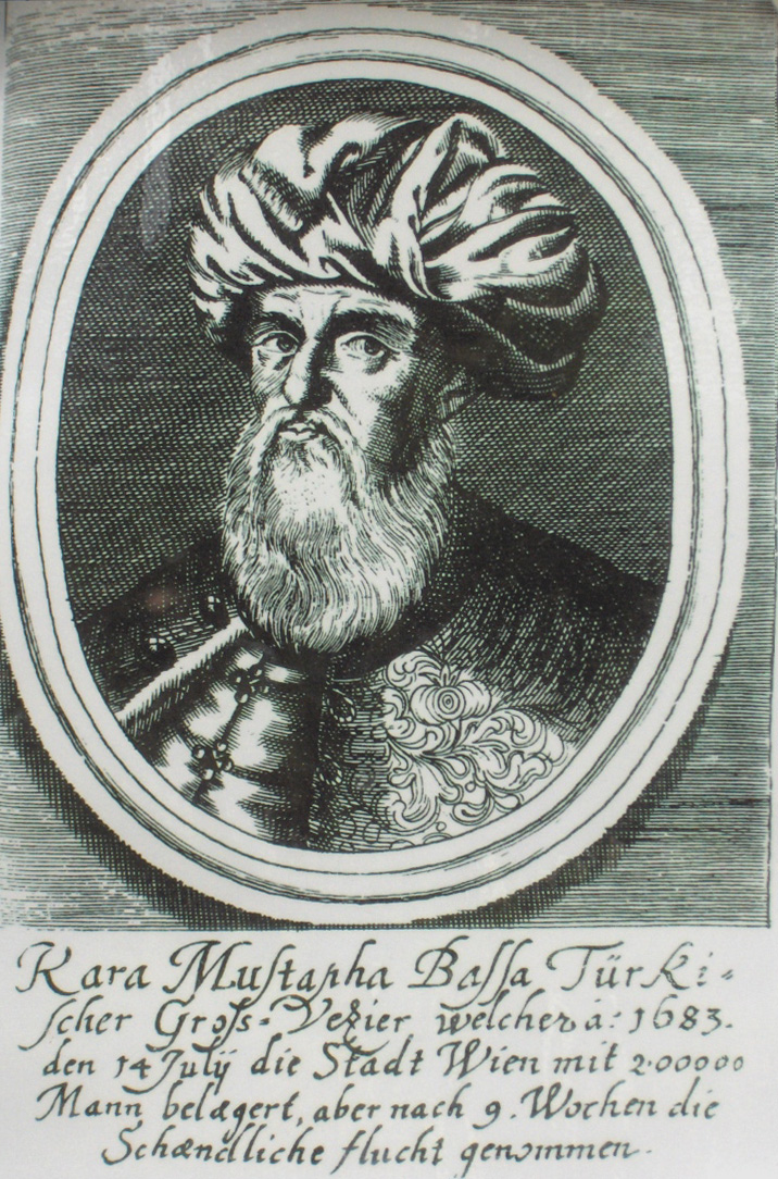 Kara Mustafa Pasha, Turkish commander at the Battle of Vienna